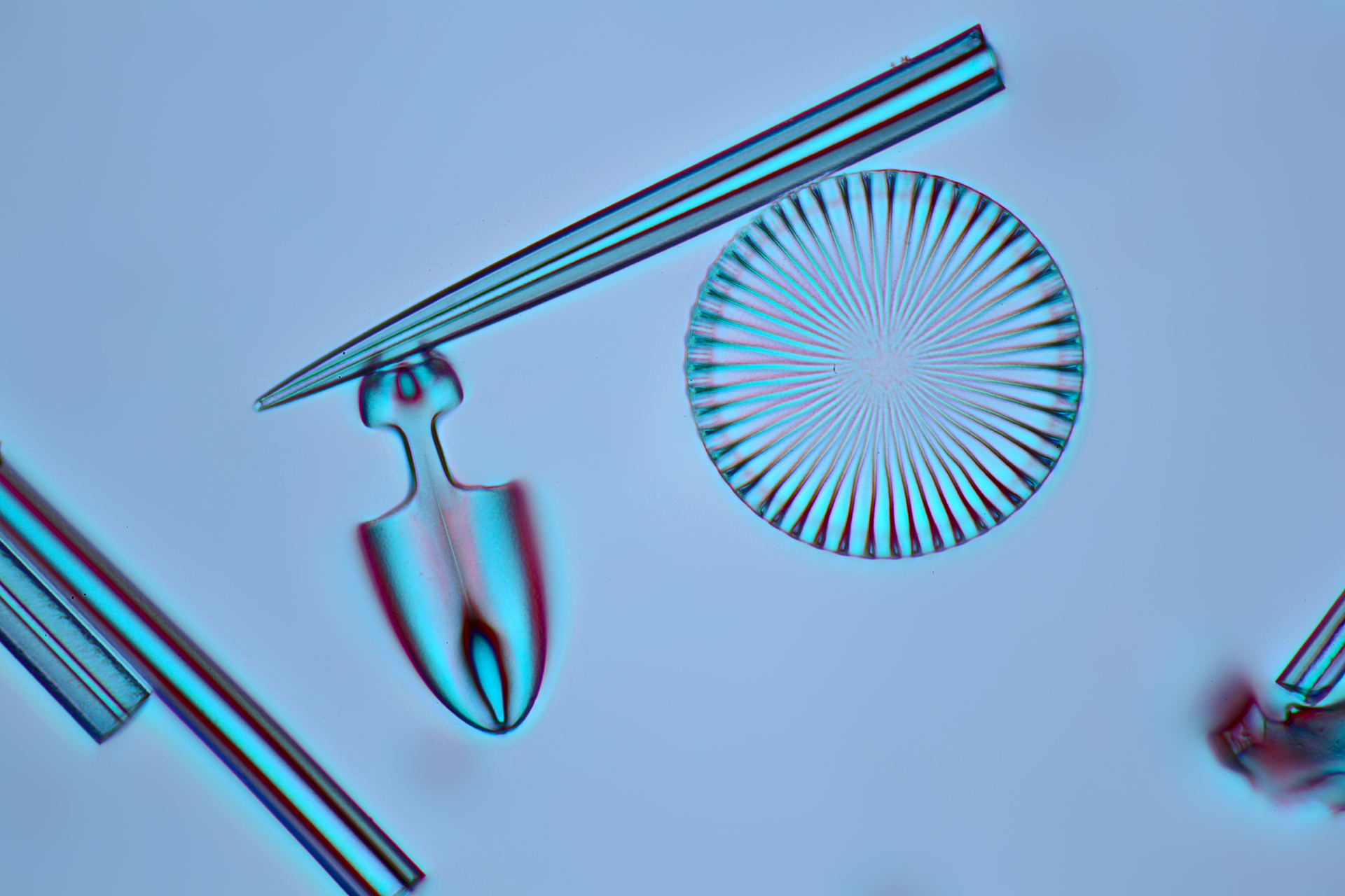 Microscopic Photography of Diatoms with Rheinberg Illumination.